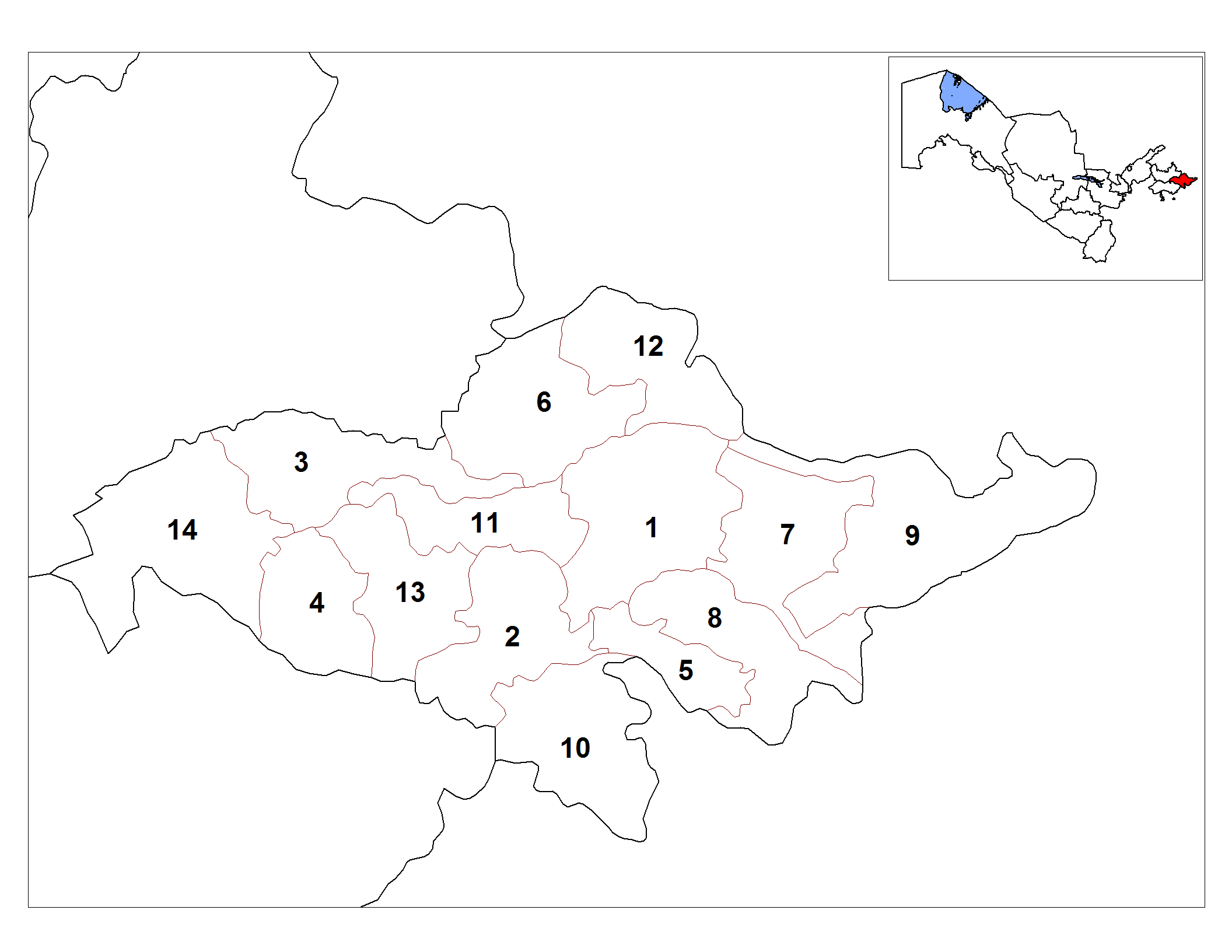 Map of the districts (tuman) of the province (viloyat) of Andijan in Uzbekistan.